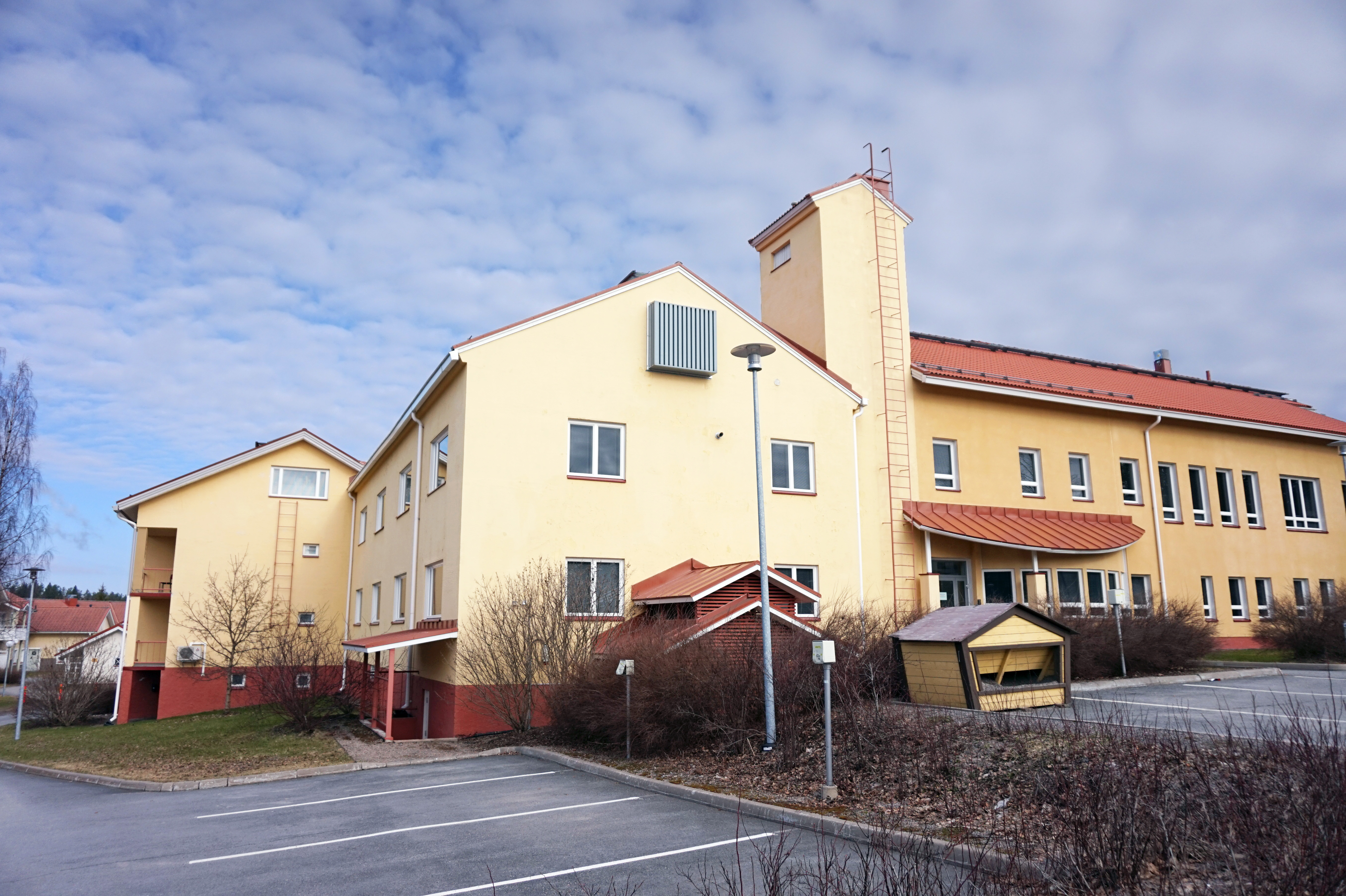 A town hall in Ähtäri.